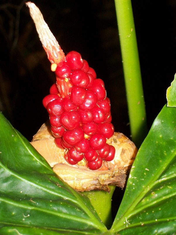 Alocasia brisbanensis in fruit, Brush Farm Park, Eastwood, Australia